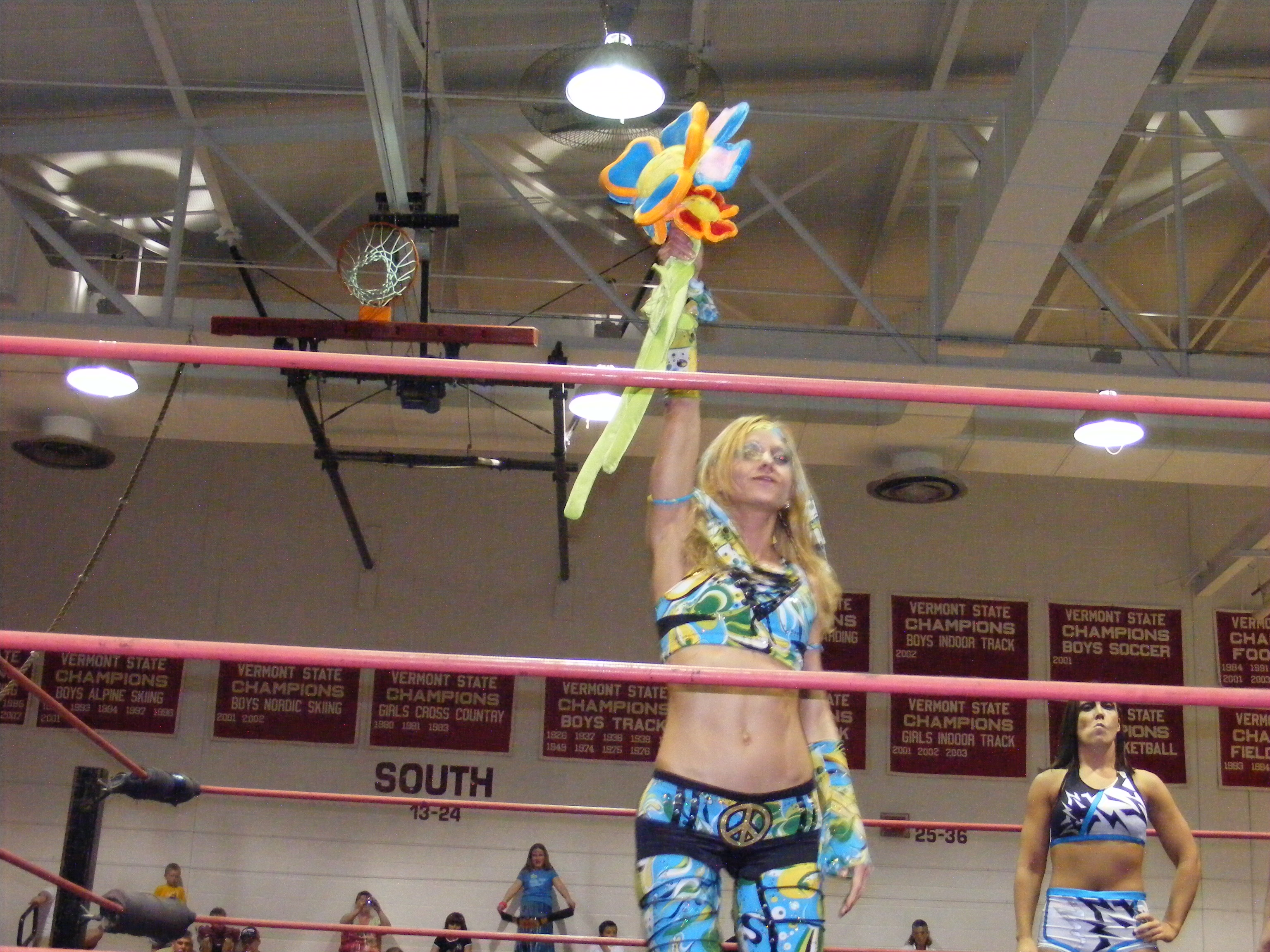 Professional wrestler Daizee Haze, with her trademark plastic daisy at an APW show in Rutland, Vermont in May 2009.